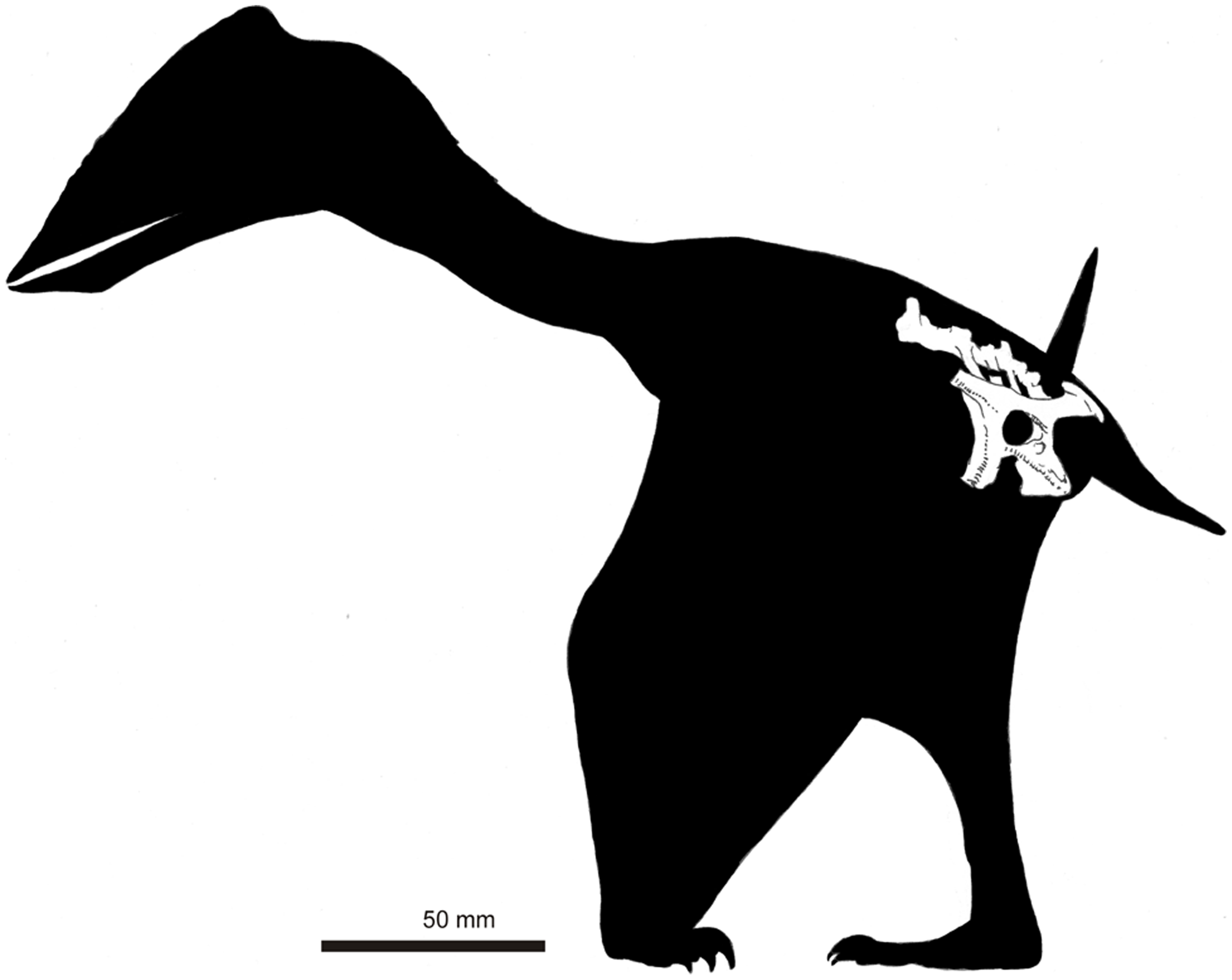 Speculative reconstruction of Vectidraco daisymorrisae. We assume that Vectidraco was similar in overall morphology and proportions to Tapejara and other small-bodied azhdarchoids, was edentulous, possibly crested, in possession of relatively short wings, and capable of parasagittal quadrupedal locomotion as shown here. Total length = c. 350 mm, wingspan = c. 750 mm.